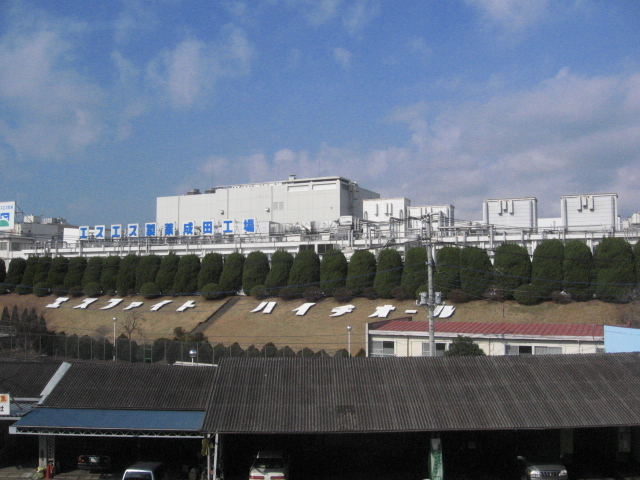 SS Pharmaceutical company factories in Narita, Chiba.